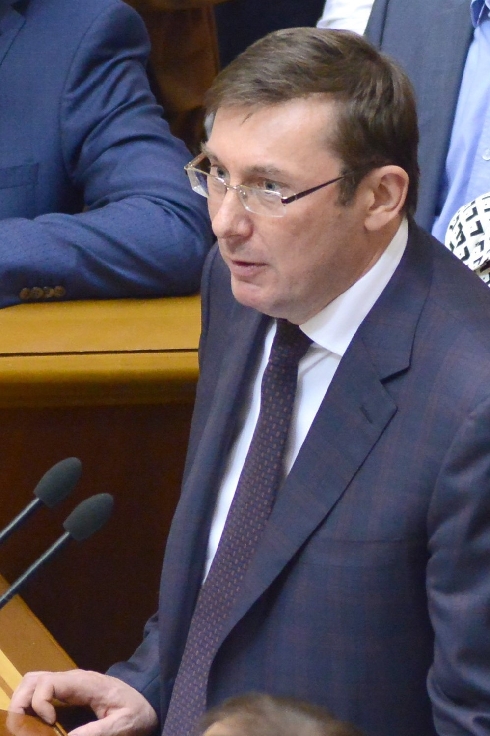 PARLIAMENT OF UKRAINE 12 May 2016 ,photo by VADIM CHUPRINA